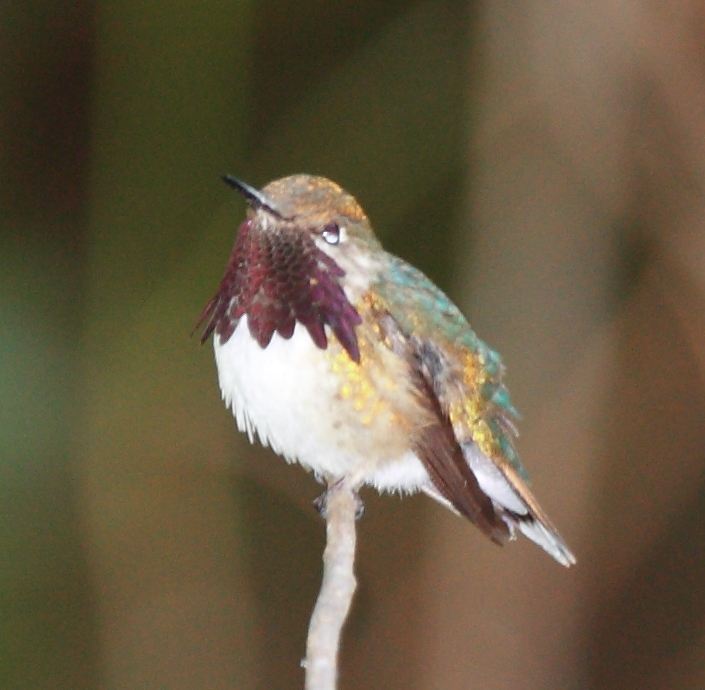 Bumblebee Hummingbird (Atthis heloisa)